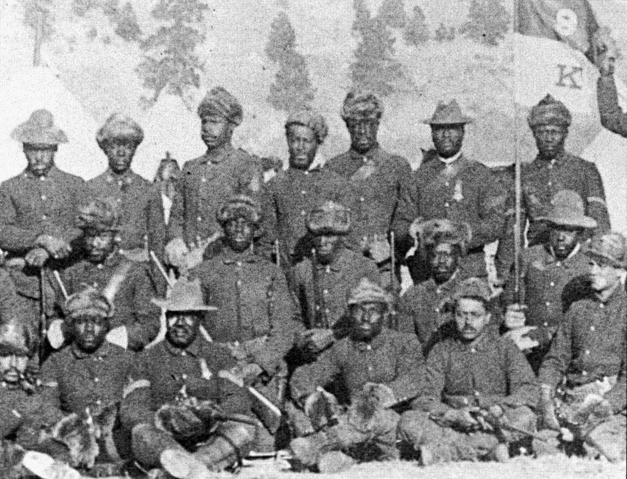 Detail of a photograph of K Troop, 9th Cavalry Regiment, United States Army. Two Medal of Honor recipients are visible; George Jordan is seated at lower left and Henry Johnson is standing at upper right.